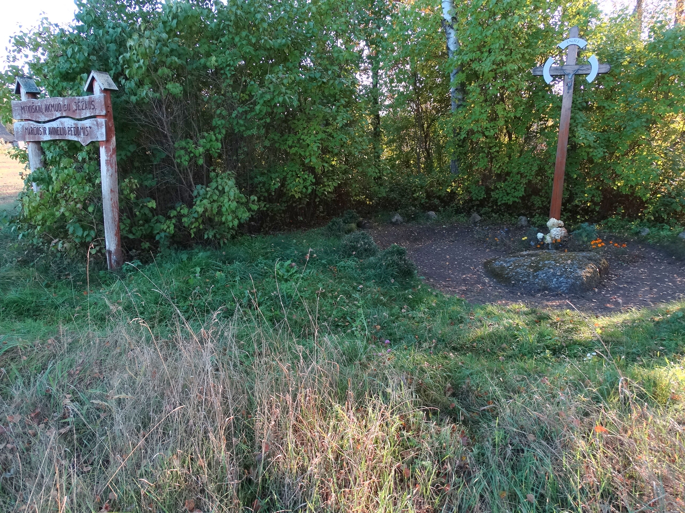 Mitkiškės Stone, Elektrėnai Municipality, Lithuania